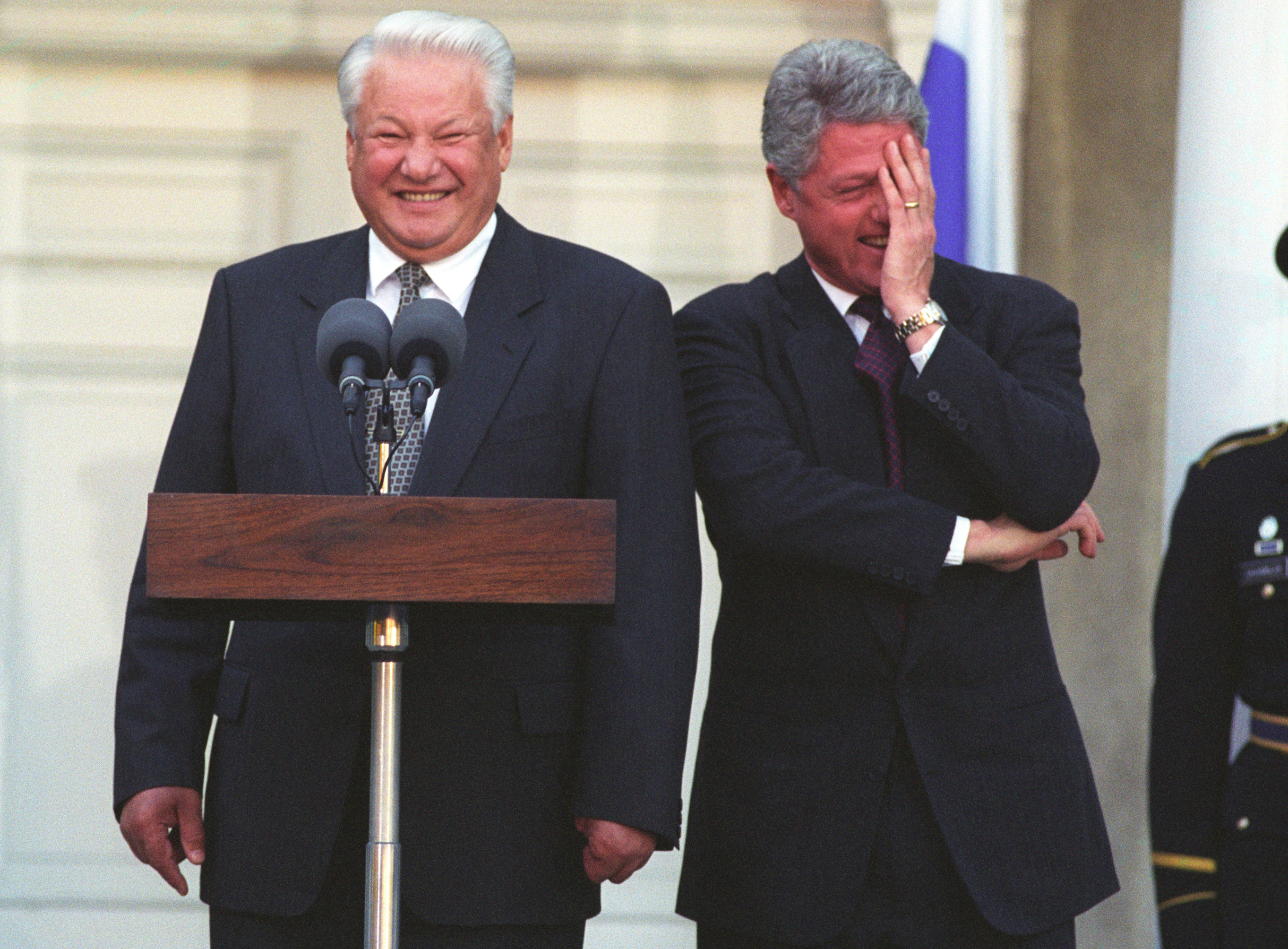 President Bill Clinton & Russian President Boris Yeltsin at the FDR Library in Hyde Park, New York.